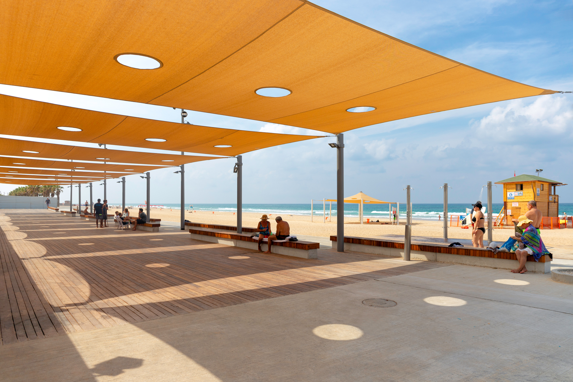 Bat Yam beach, Israel, Sun awnings over boardwalk